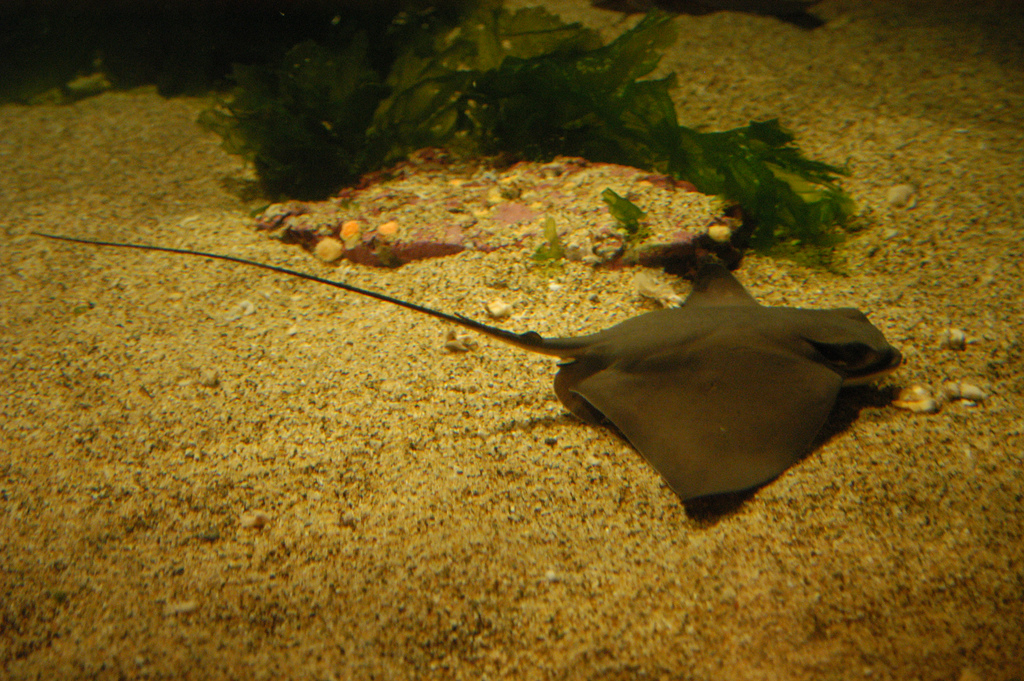 Bat ray (Myliobatus californica) at the Monterey Bay Aquarium